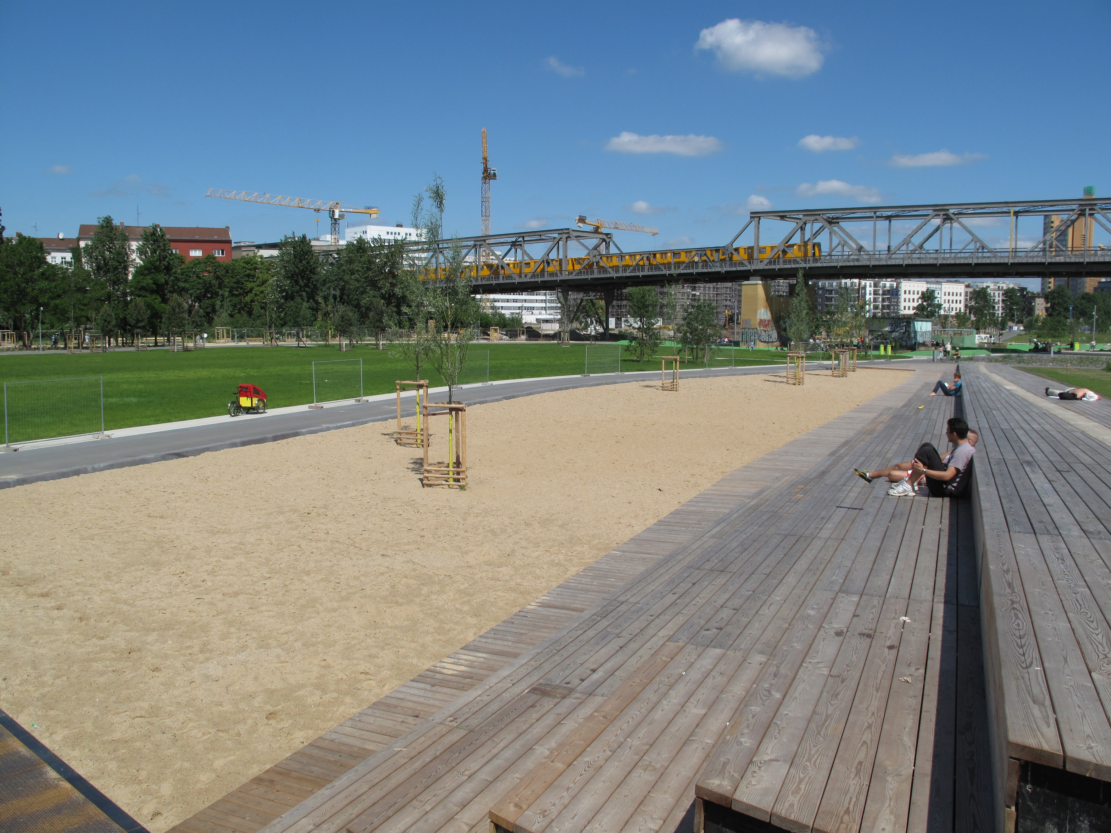 „Beach“ and seat stand in the Westpark with the elevated Berlin underground line 1. The Westpark is a 9 hectare part of the Park am Gleisdreieck in Berlin-Kreuzberg, Germany. The Westpark was opened on May 31, 2013.